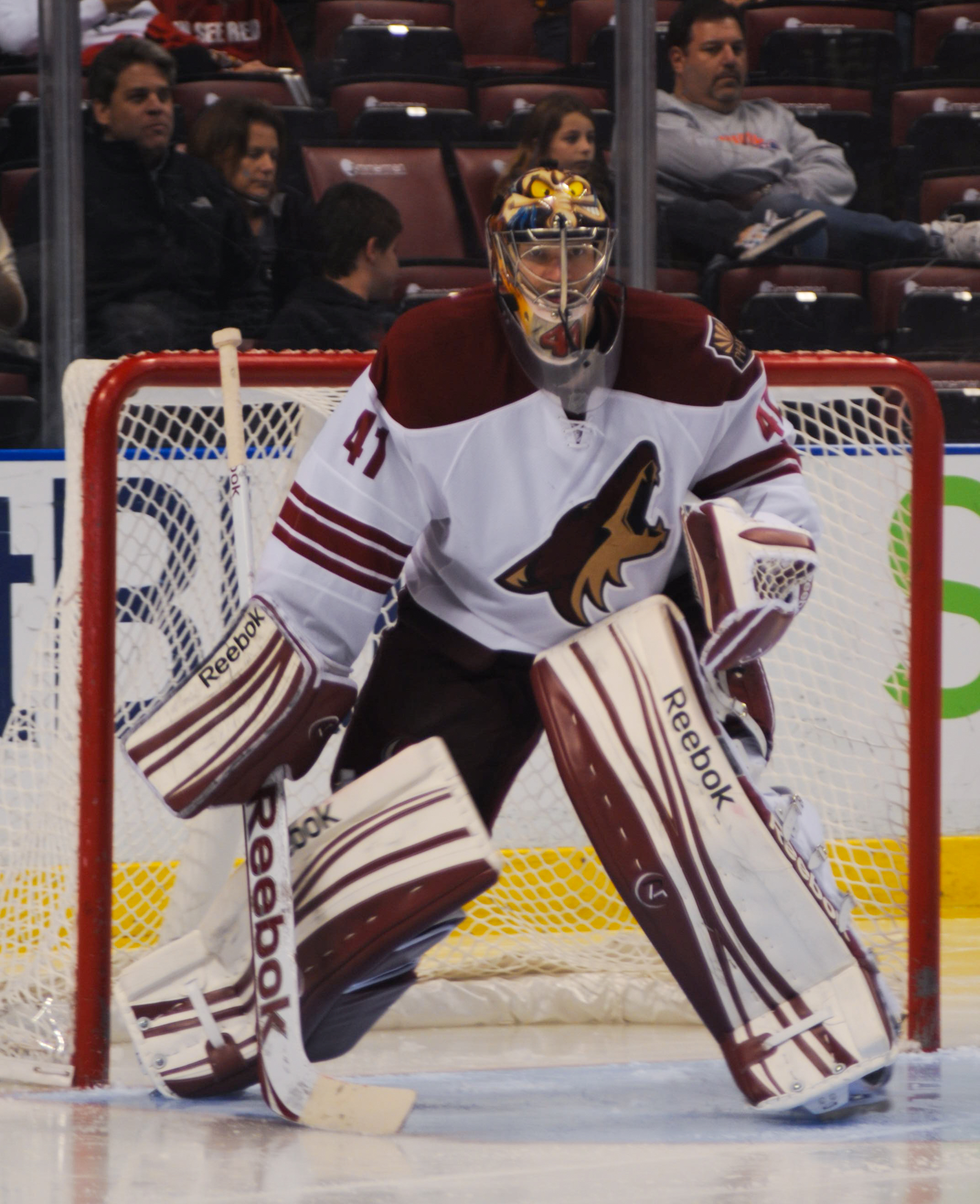 Mike Smith watches the action at the blue line with anticipation from the net during the Phoenix Coyotes vs Florida Panthers game. 12/20/2011.